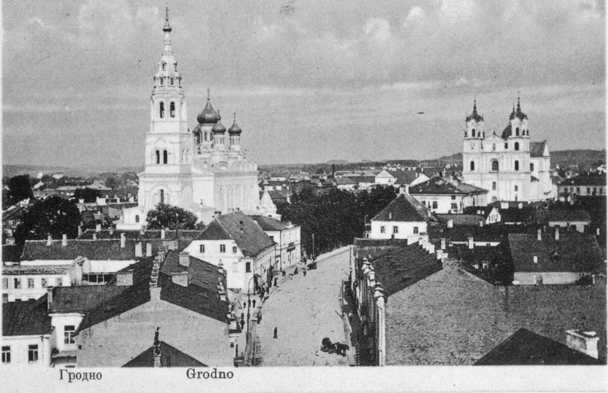 Panorama of Hrodna; background- church of St. Francis Xavier. Postcard from 1920.